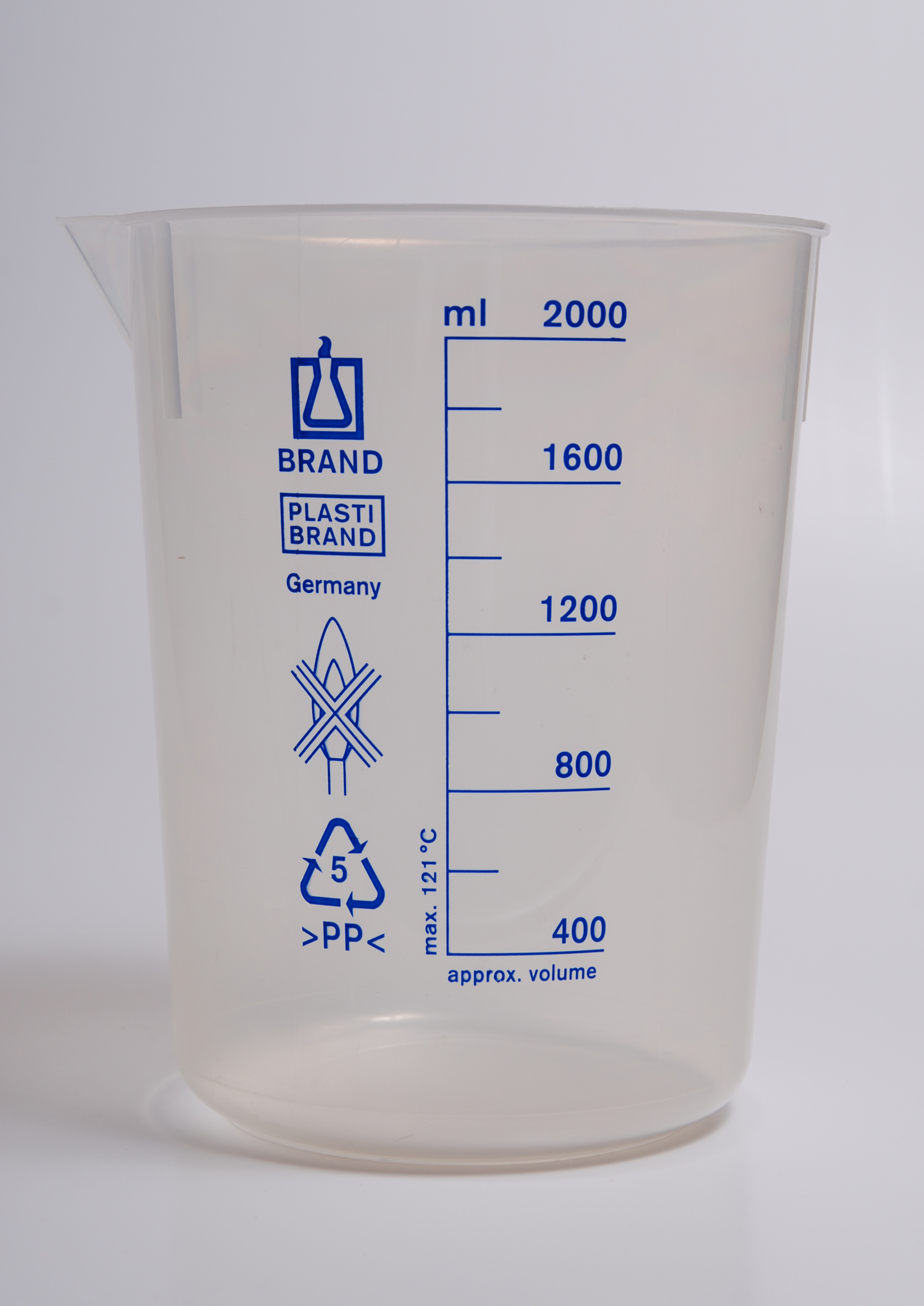 Plastic 2000ml beaker